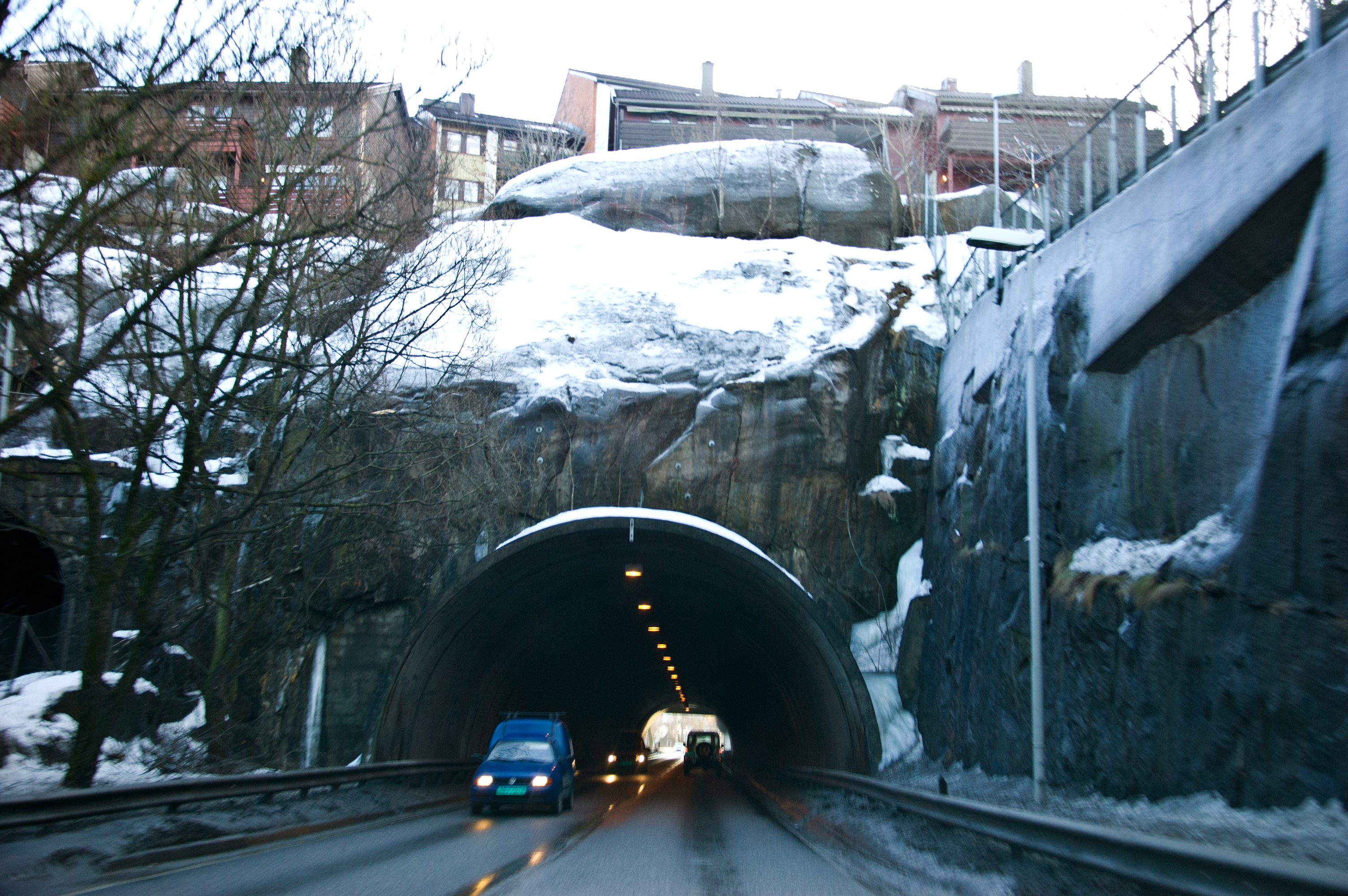 The St.Hansfjell tunnel in Fredrikstad, Østfold, Norway.